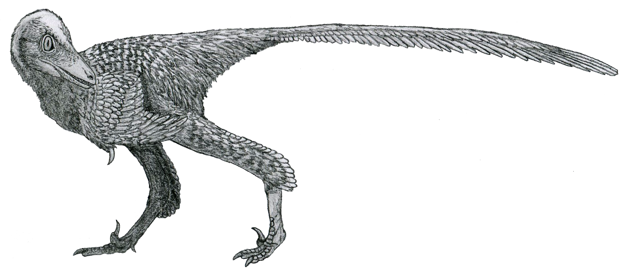 Life reconstruction of Almas, Tom Parker, 2017.